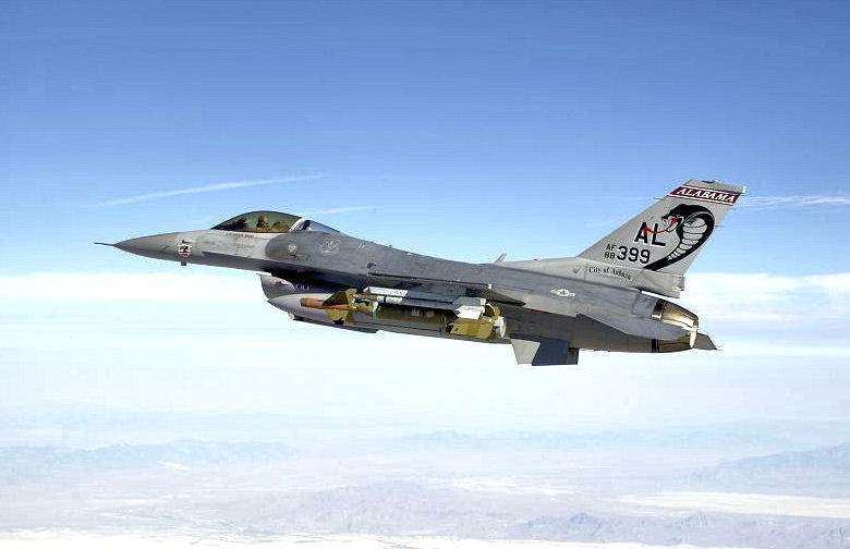 USAF F-16C block 30 #88-0399 assigned to the 160th FS is armed with a GBU-24A/B 2,000-pound laser guided bomb, a Mark-84 2,000-pound general purpose bomb and two AIM-9 Sidewinder Missiles in flight over the Utah Test and Training Range during exercise Combat Hammer on March 30th, 2002. [USAF photo by TSgt. Michael Ammons]